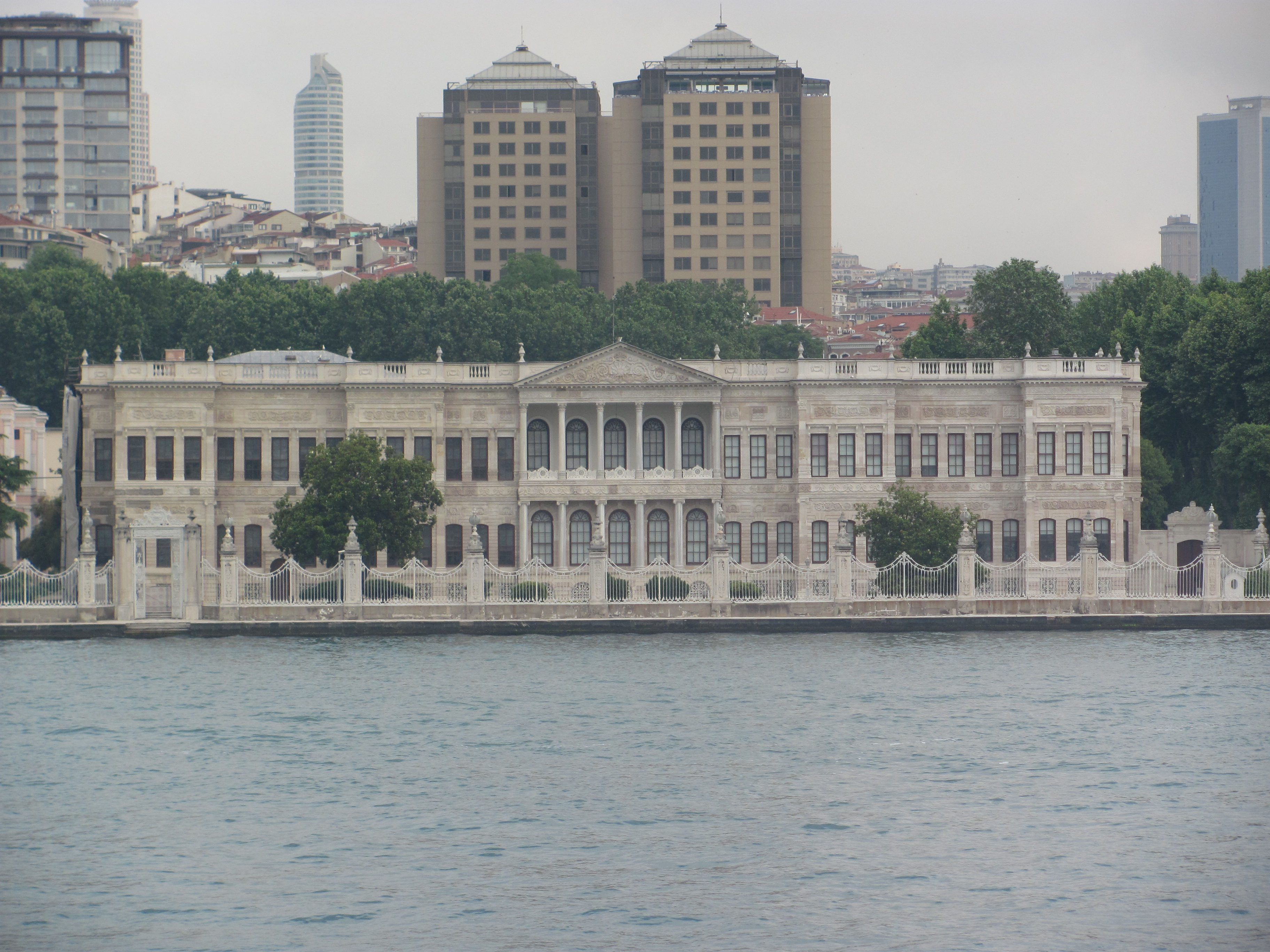 National Palaces Painting Museum as seen from Bosphorus